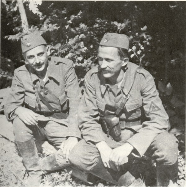 File property of the Museum of History of Yugoslavia. Public domain. Komandant Prve proleterske divizije Koča Popović i komandant Prve proleterske brigade Danilo Lekić u istočnoj Bosni, posle proboja sa Zelengore, leta 1943. The commander of the First Proletarian Division Koca Popovic and commander of the First Proletarian Brigade Danilo Lekic in eastern Bosnia, after the breach of Zelengore, June 1943.